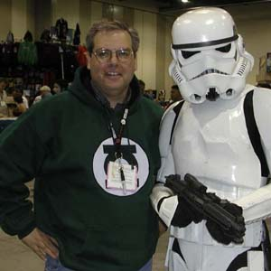 Christopher Moeller at San Diego Comicon, 2005, with Stormtrooper